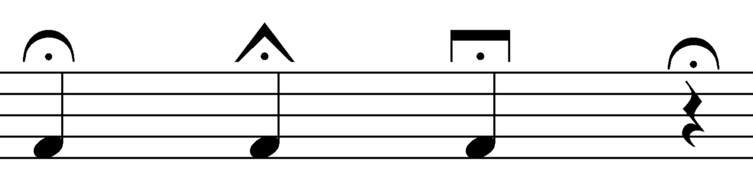 Example of musical fermatas